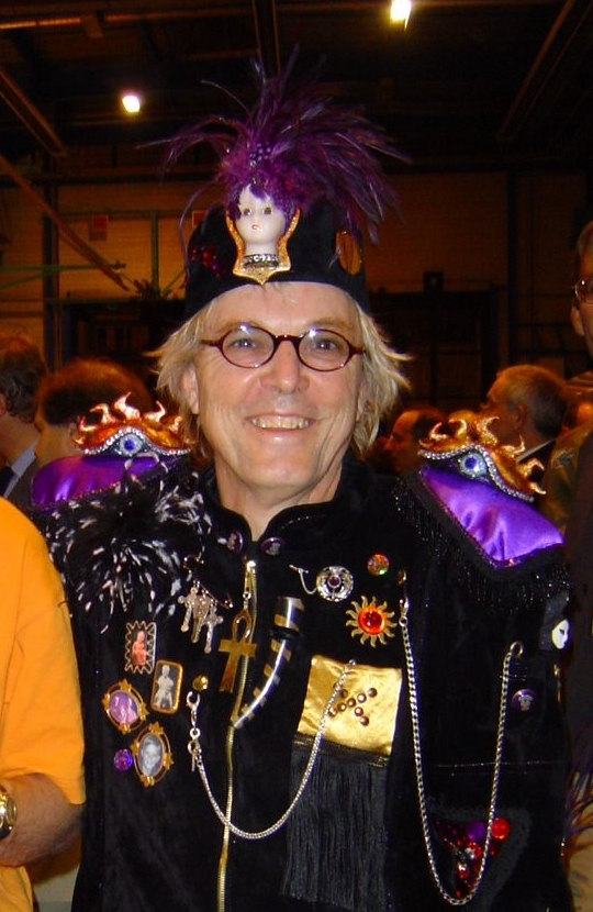 derivative of File:David Engwicht1.JPG